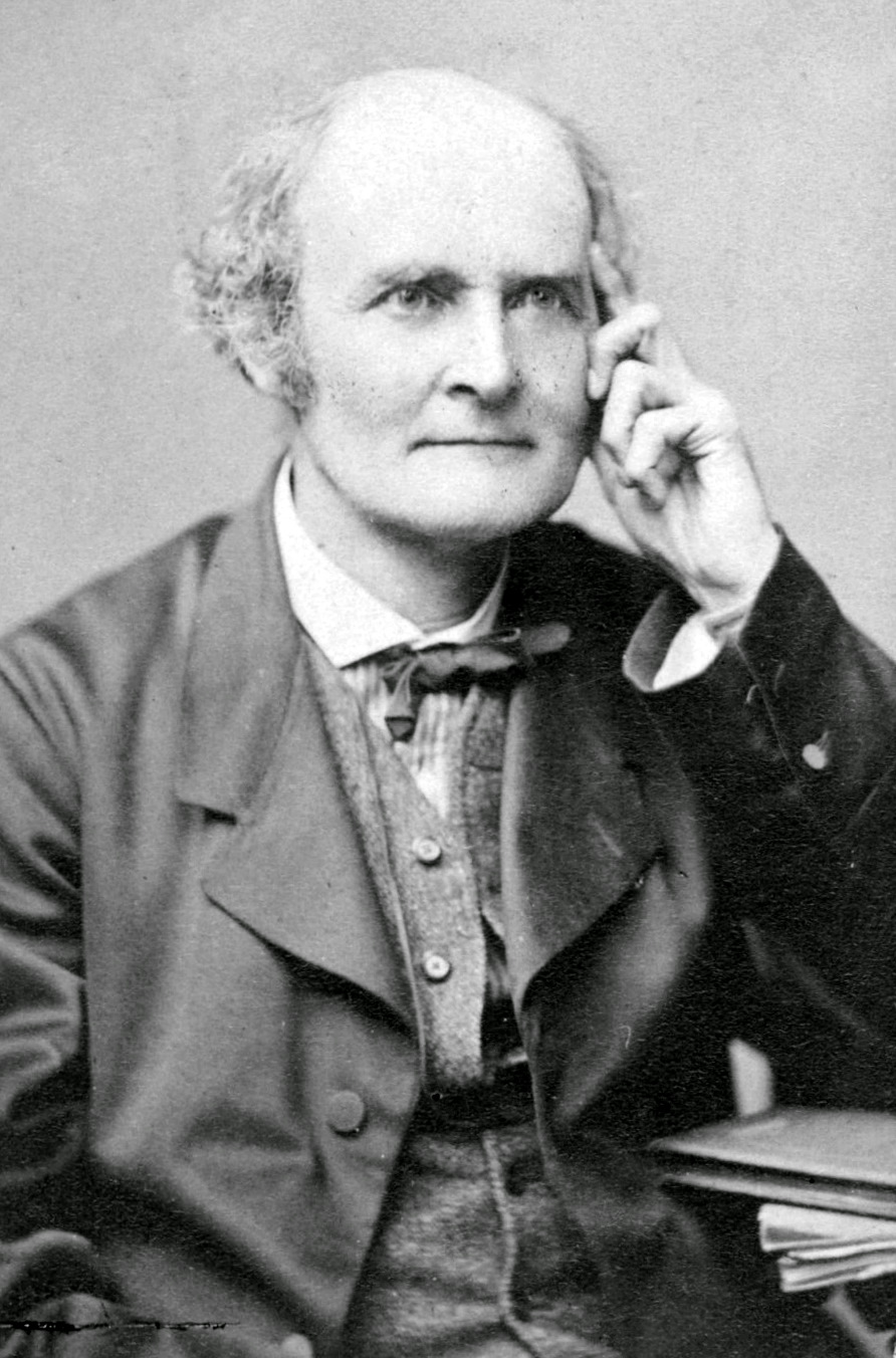 Arthur Cayley Portrait